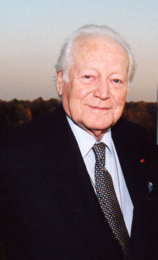 Maurice Druon in Orenburg, Russia